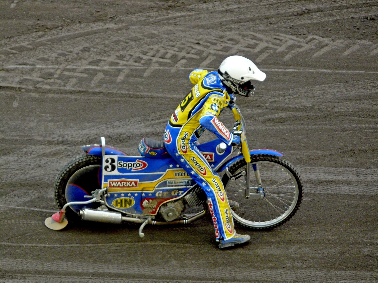 Tomasz Gollob during the test take-off before the race.